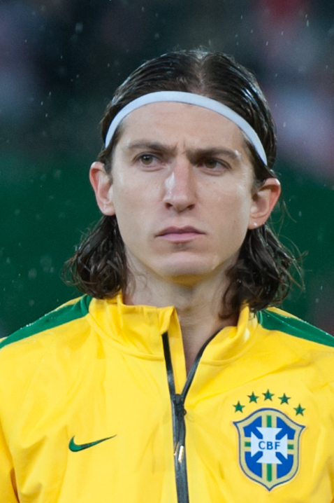 International Friendly Austria - Brazil November 18, 2014: Filipe Luís